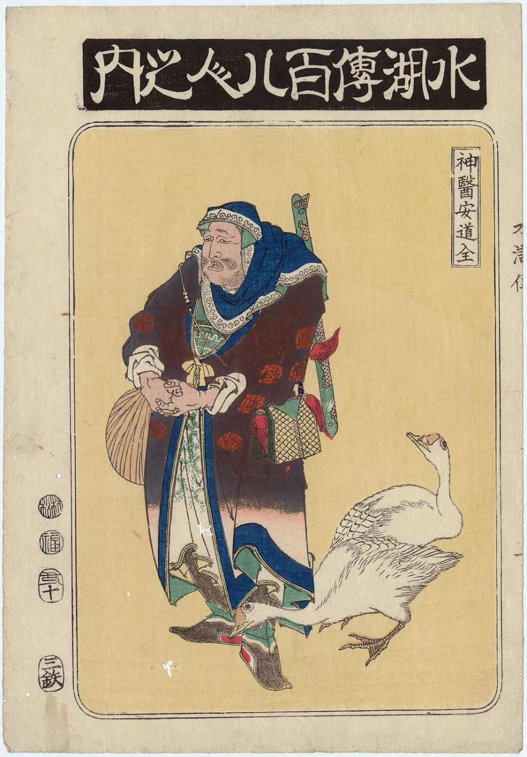 An Daoquan (安道全) Portrait